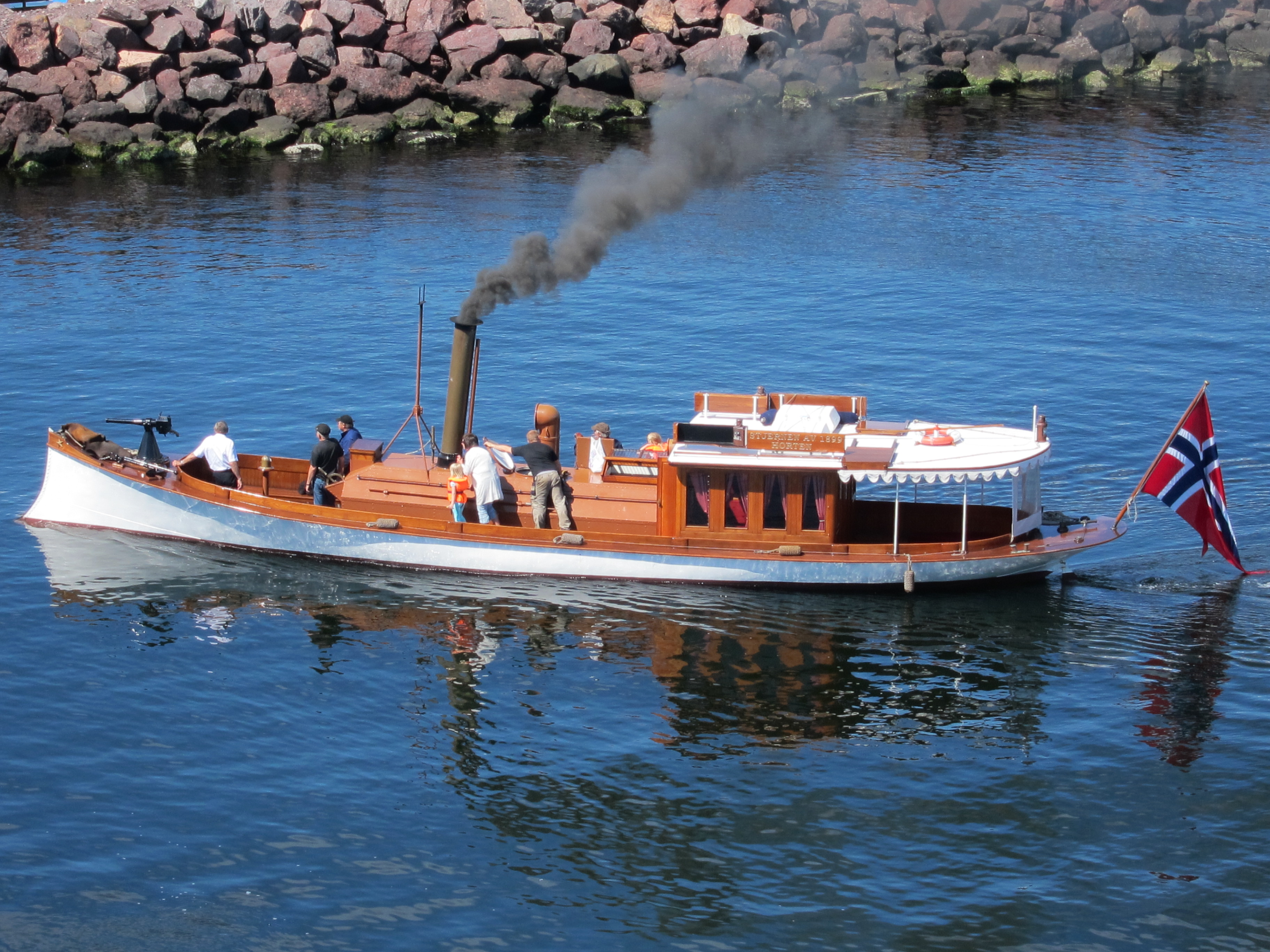 The former Royal steam sloop Stjernen entering harbor in Horten, Norway in June 2012